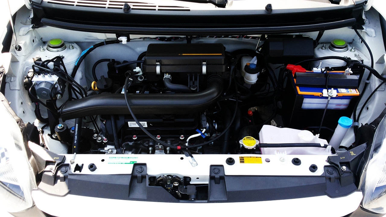 2014 Toyota Wigo G (Philippine model). Taken at Toyota Manila Bay, Pasay City, Philippines